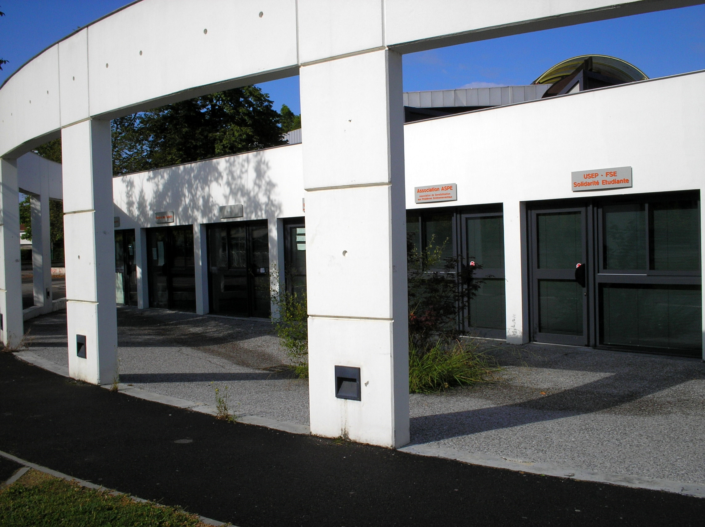 Maison de l'étudiant near Cap Sud restaurant on UPPA campus in Pau, France